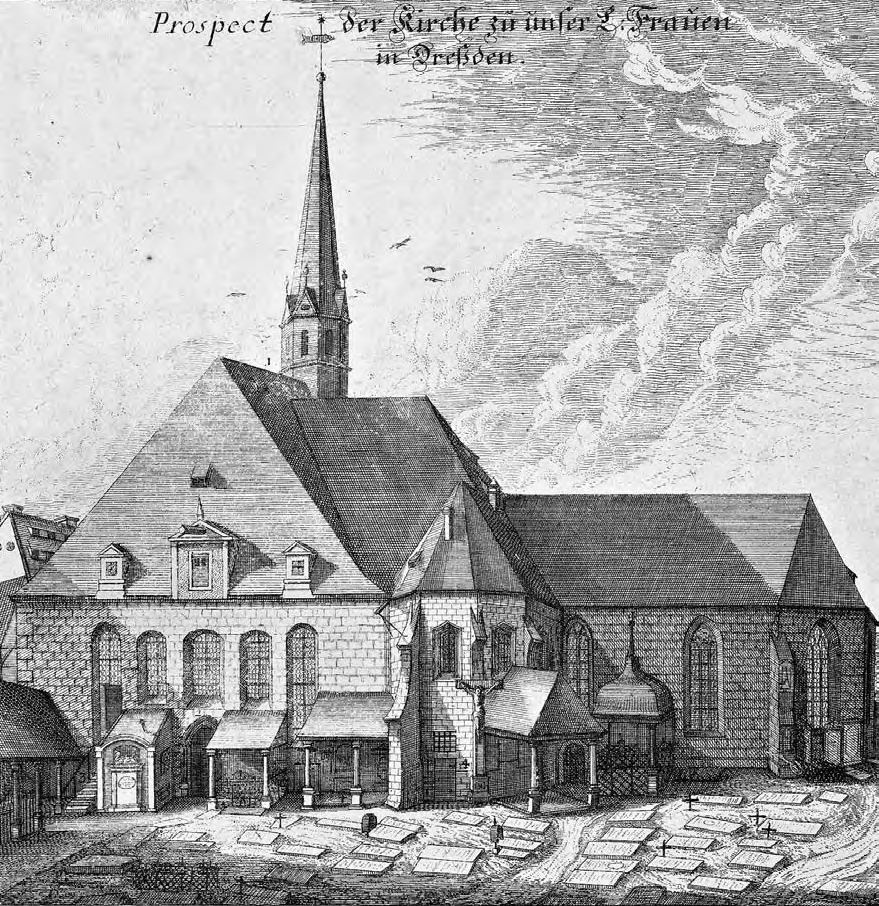 The predecessor of George Bährs's Frauenkirche Dresden „Zu Unser Lieben Frauen“ (demolished in 1727) ‒ copper-plate engraving by Moritz Bodenehr (1665‒1749). Found higher-resolution version of the Illustration, extracted it with pdfimages (Poppler) from the PDF and converted the PPM to PNG.